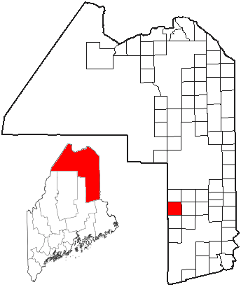 Adapted from U.S. Census Bureau maps (American FactFinder) and Wikipedia's ME county maps by Bumm13.